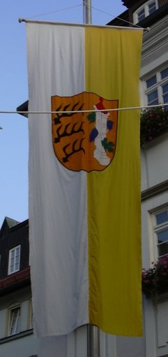 Flag of Marbach am Neckar, Germany